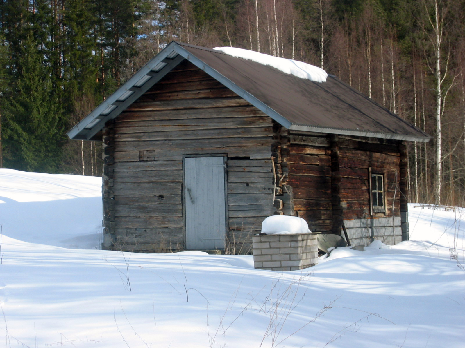 Chimneyless sauna building in Enonkoski, Finland.